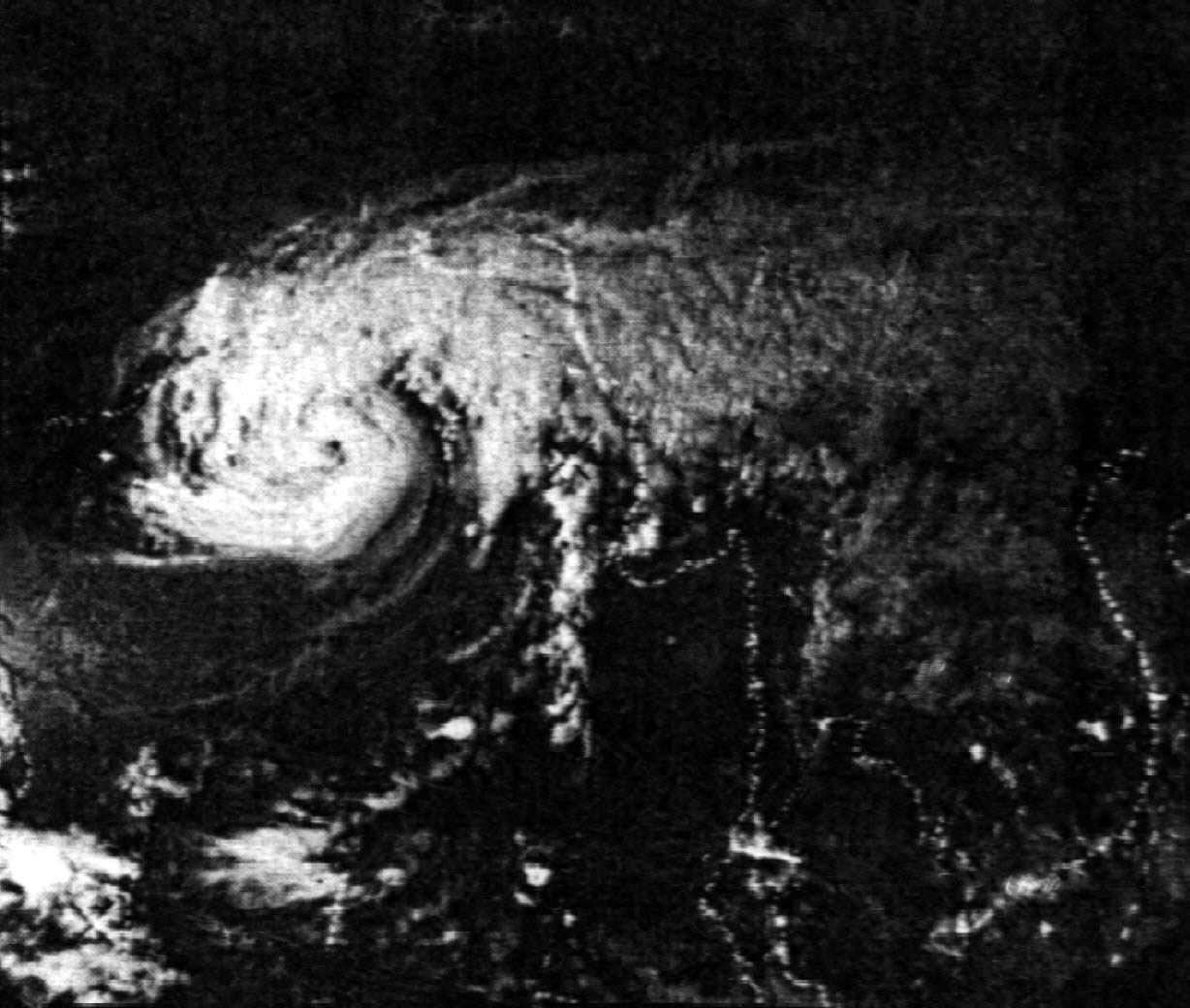 Image of the Bhola cyclone taken on November 11, 1970.